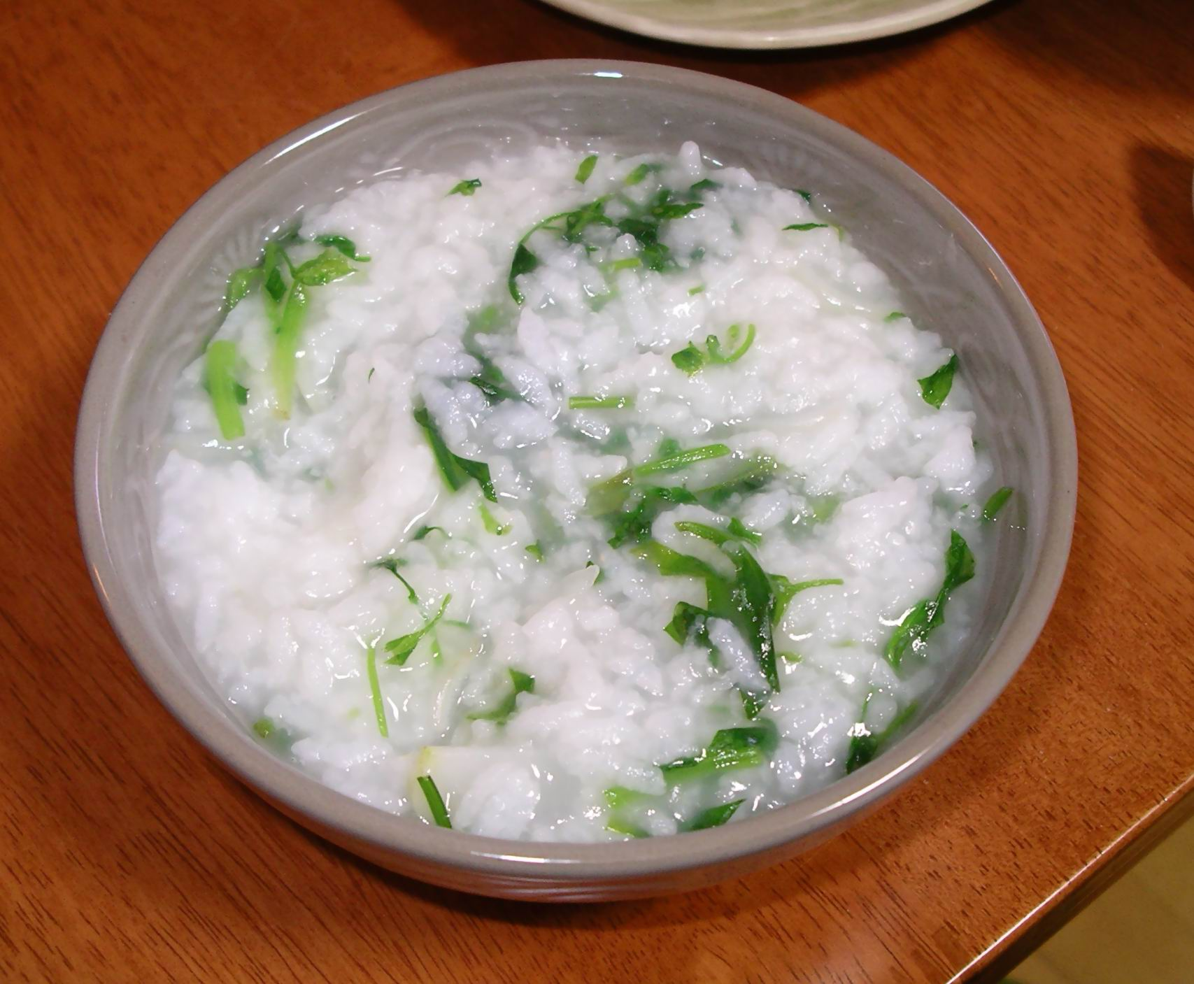 Nanakusa-gayu (rice porridge with the seven herbs of spring), a traditional food eaten on January 7th (Nanakusa-no-sekku).More: Blue Lotus The recipe The seven herbs of spring春の七草